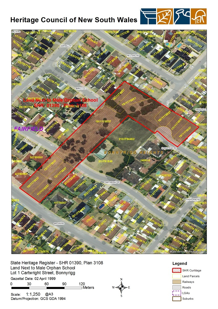 Male Orphan School land: SHR Plan 3108